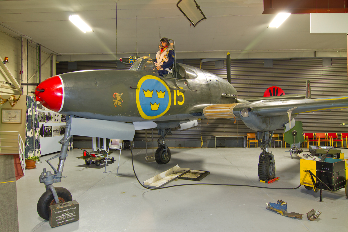 SAAB A21A-3 Fighter Aircraft on display at Soderhamn /F15 Aviation Museum in Soderhamn, Sweden